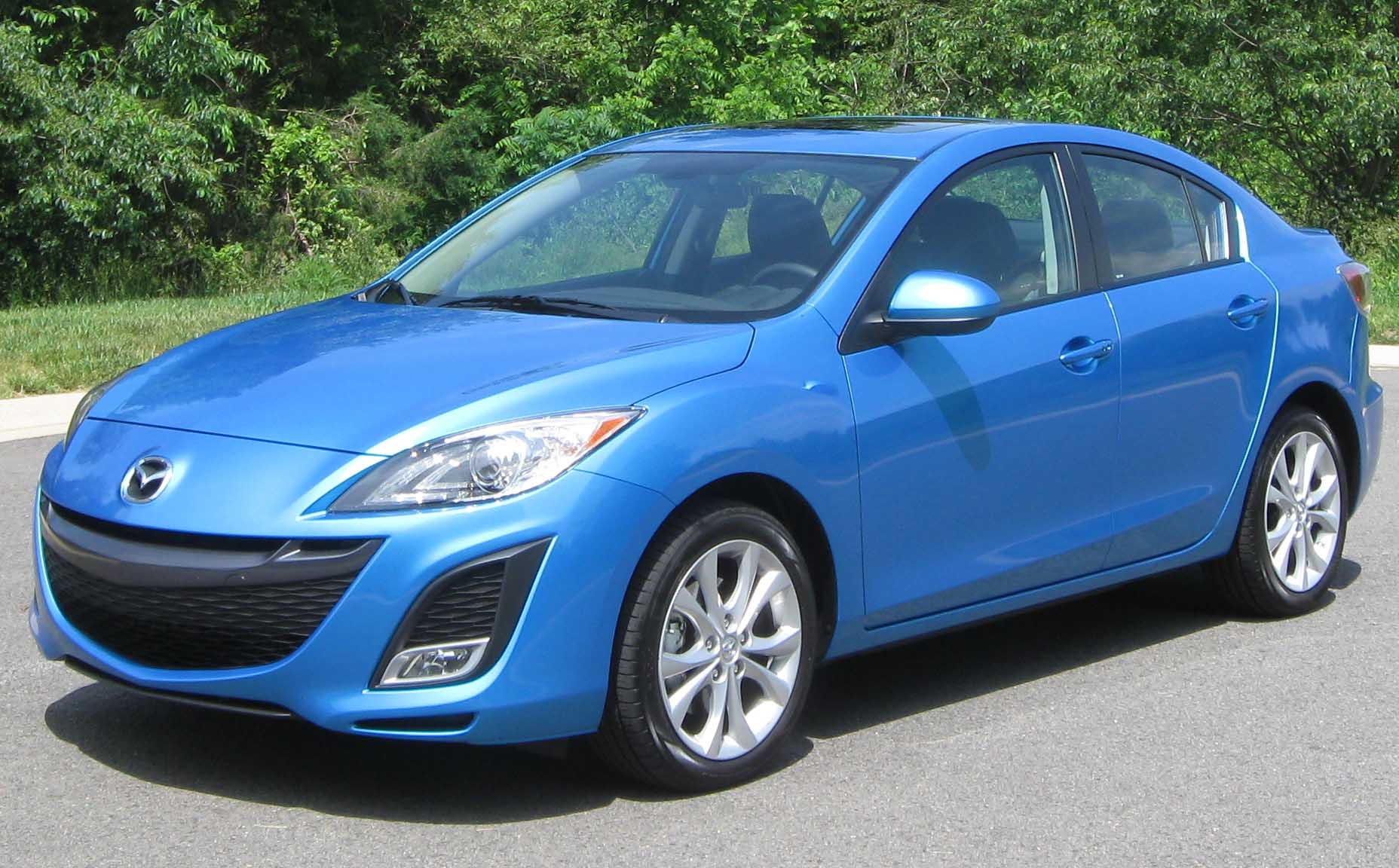 2010 Mazda3 S Grand Touring photographed in Centreville, Virginia, USA.